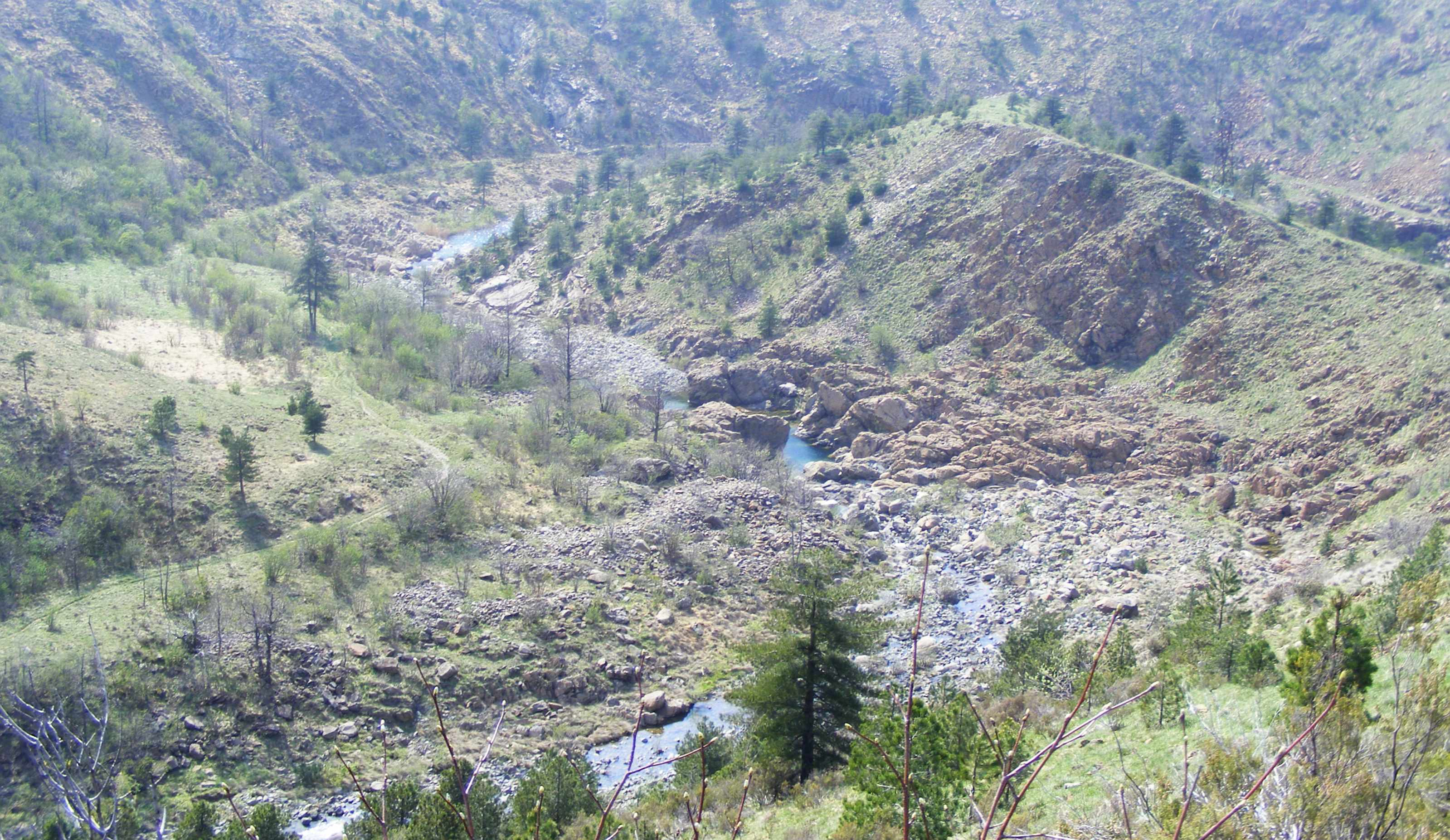 Meander on Gorzente creek (AL, Italy)